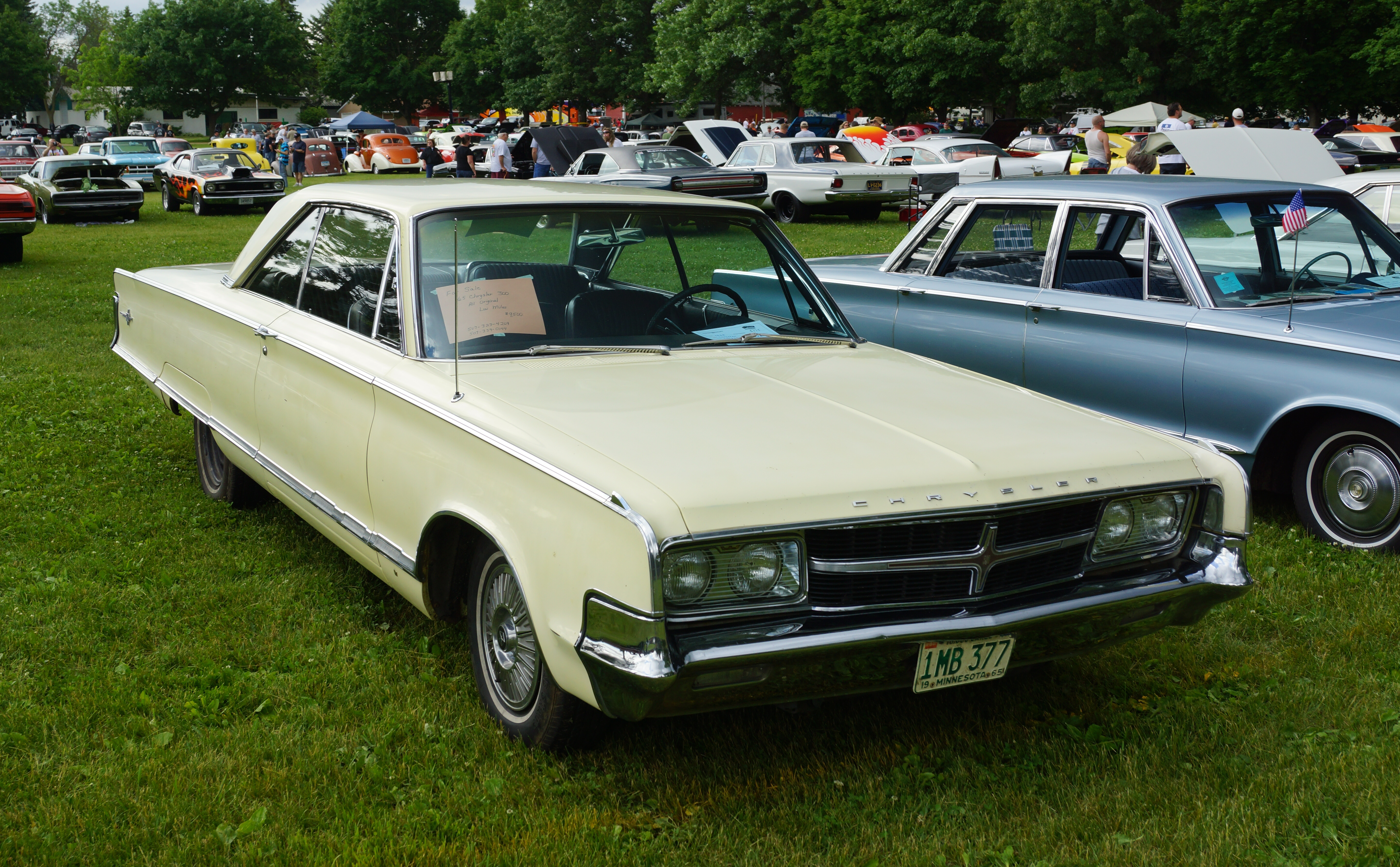 Midwest Mopars in the Park National Car Show & Swap Meet Dakota County Fairgrounds Farmington, Minntesota June 4 & 5, 2016 Click here for more car pictures at my Flickr site.